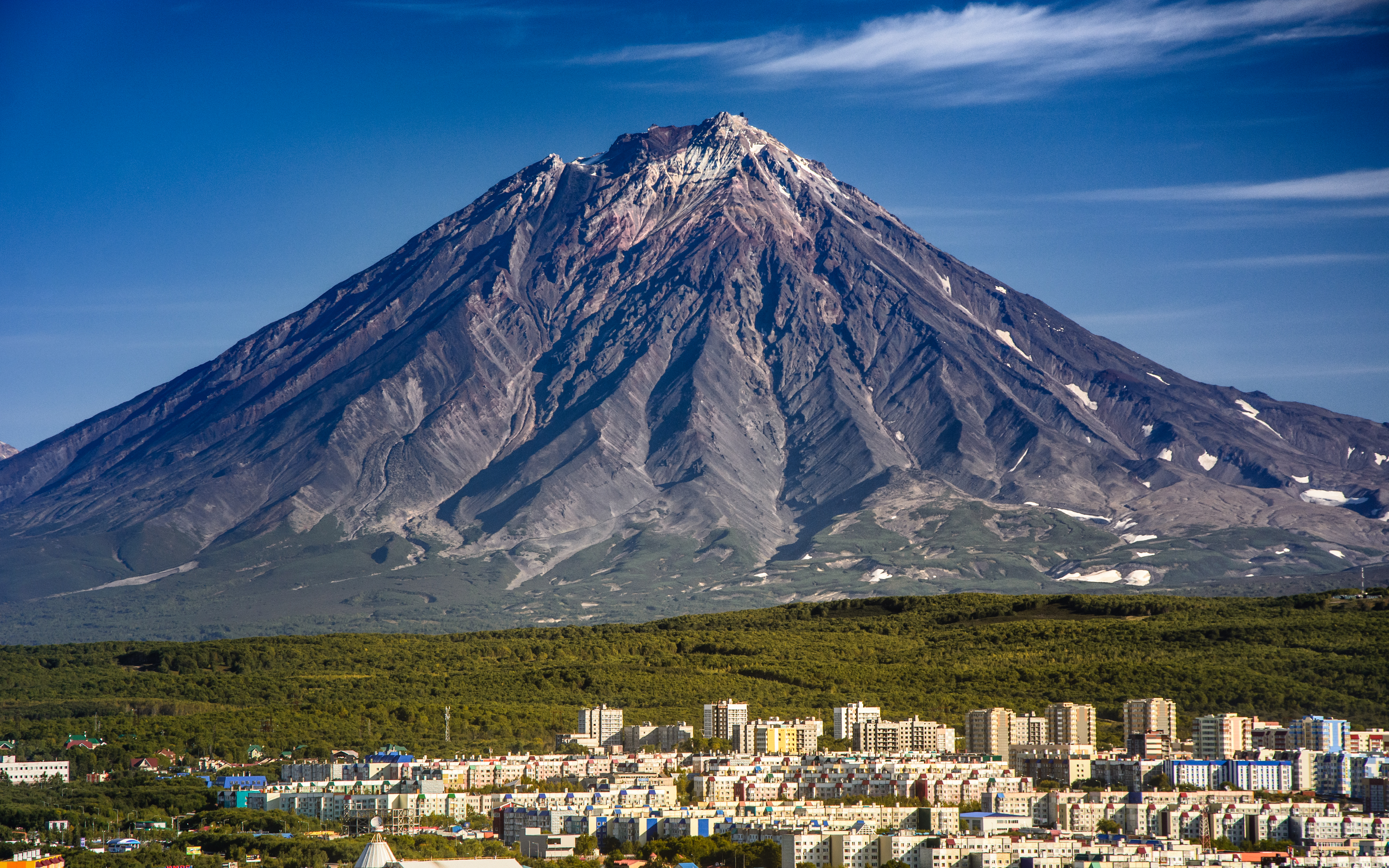 Volcano Koryaksky, Kamchatka, shot from a small hill located near the center of Petropavlovsk-Kamchatsky.